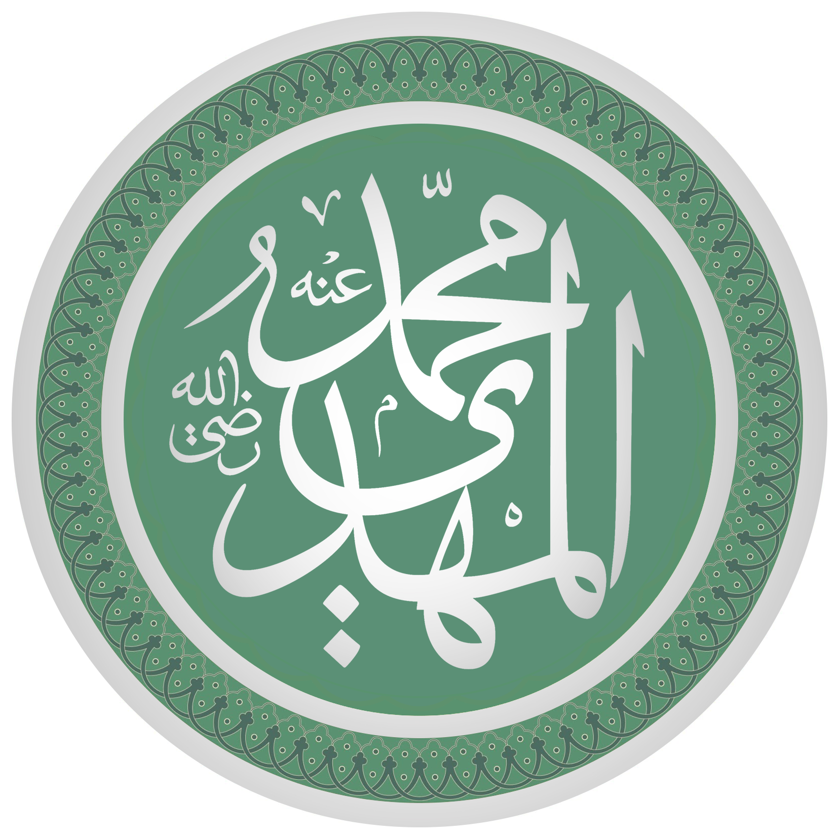 Calligraphic Name of Imam Mahdi (RA).